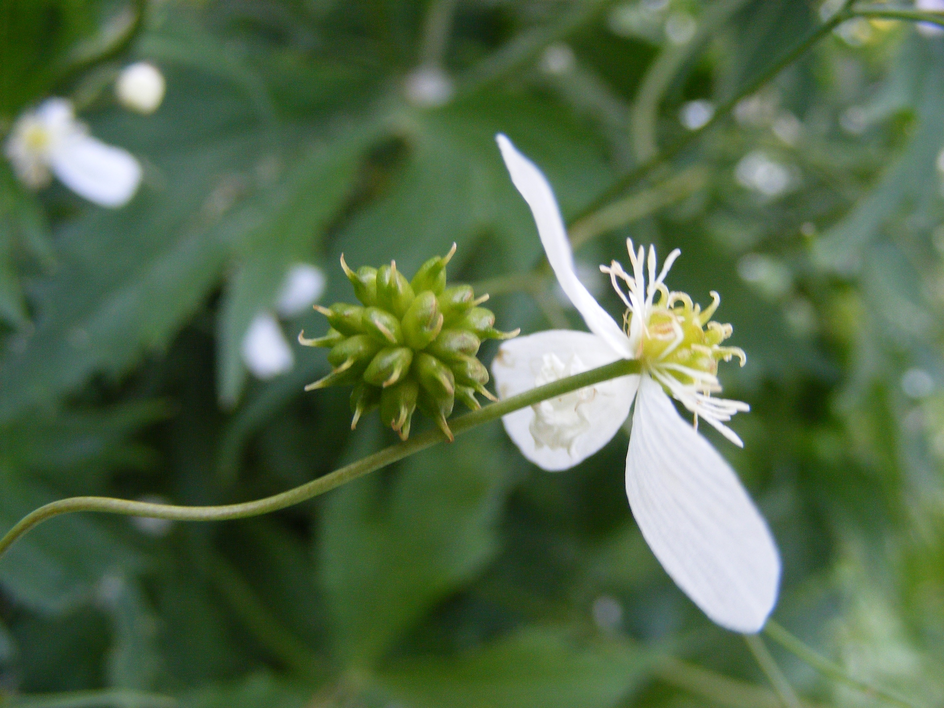 Ranunculus platanifolius Ranunculus platanifolius